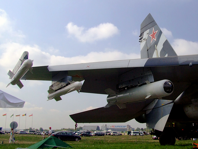 MAKS Airshow-2007. Su-27SK